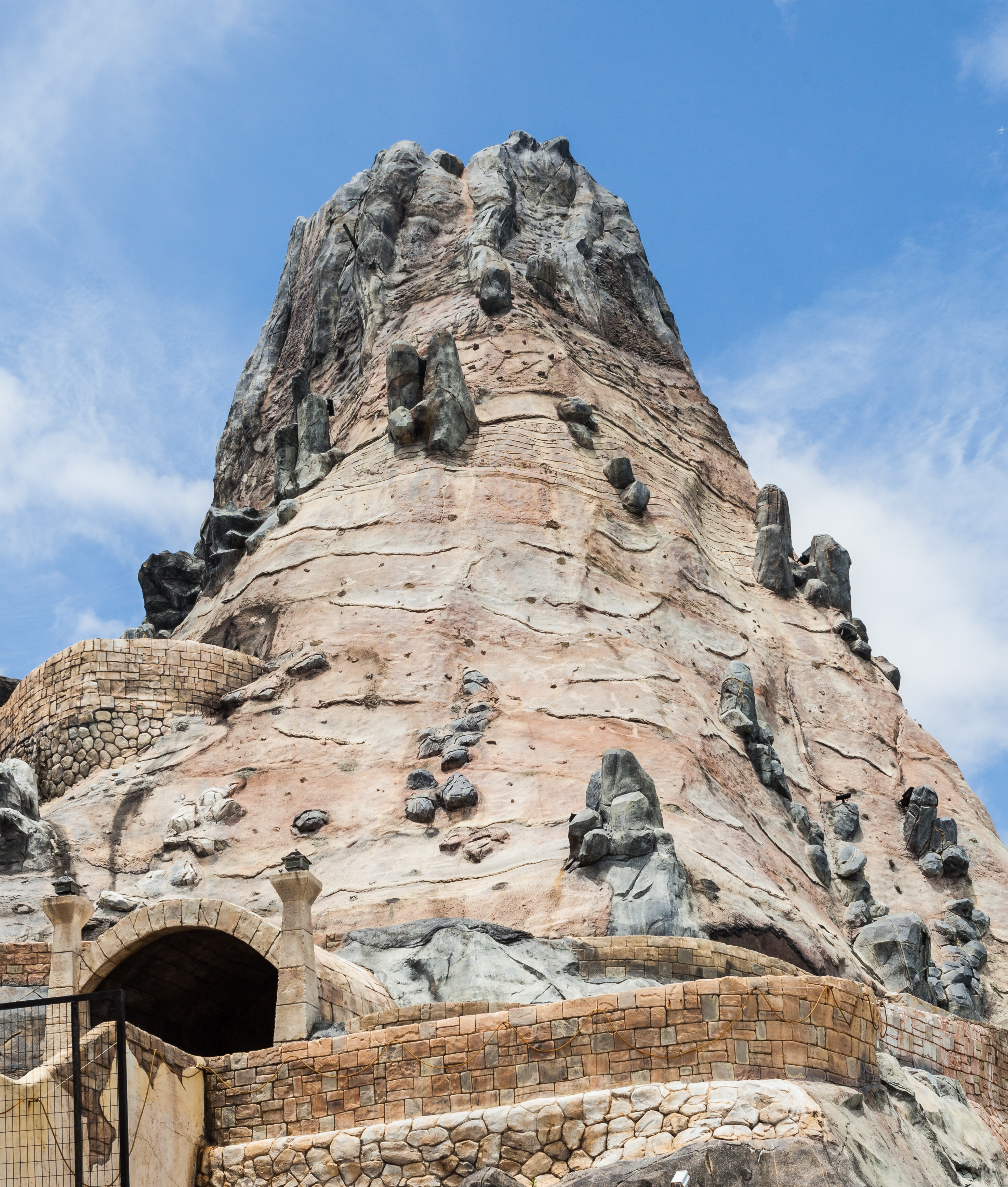 Fisherman's Wharf, Macau